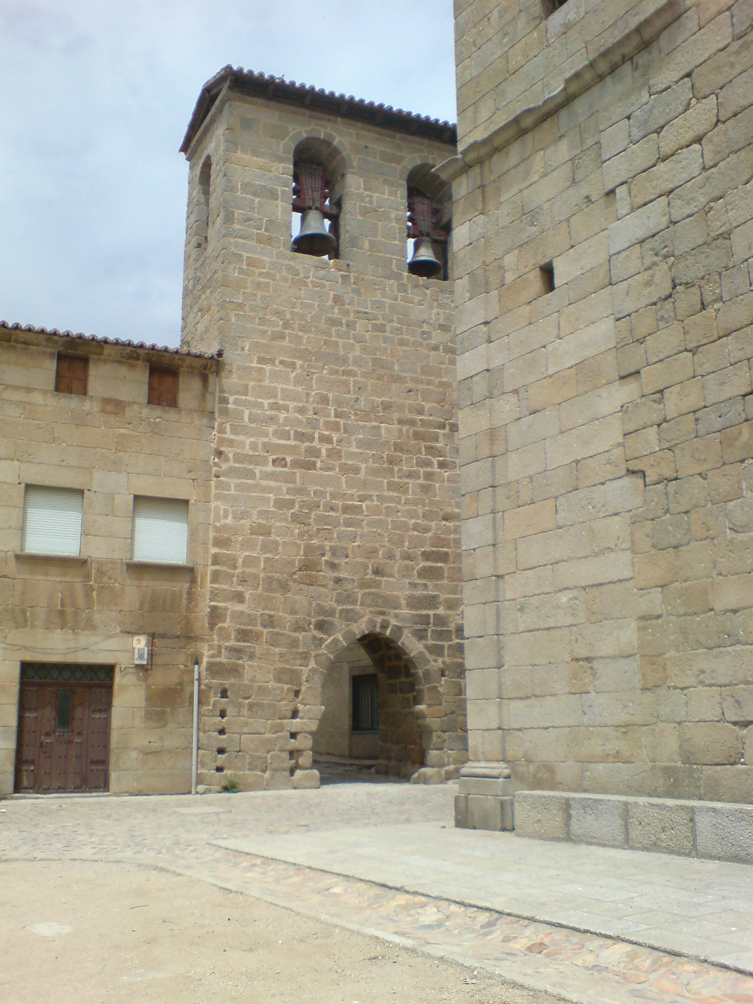 Torre de las Campanas en San Felices de los Gallegos, San Felices de los Gallegos.